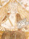 Agnes of Brandenburg, Queen of Denmark